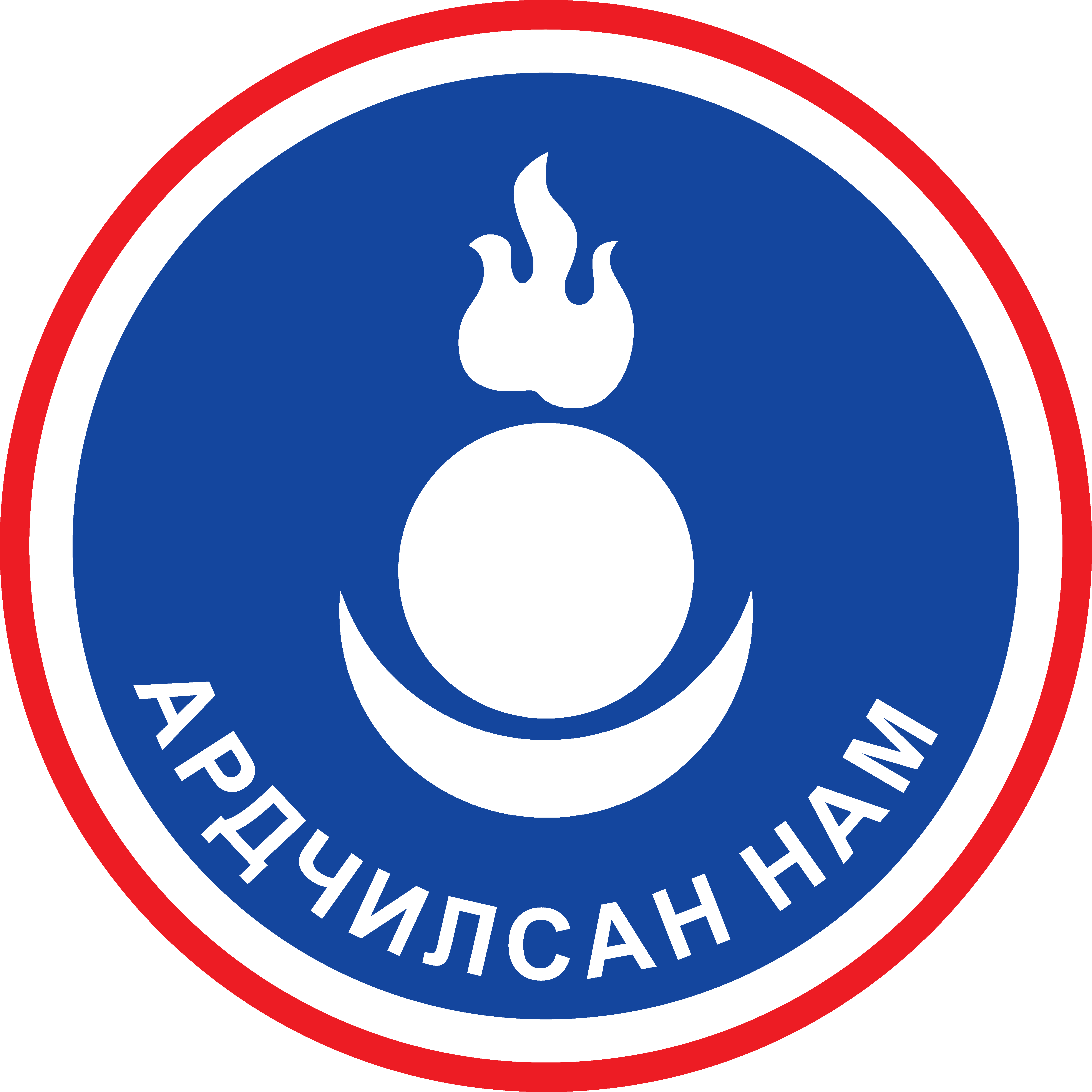 Logo of the Democratic Party of Mongolia